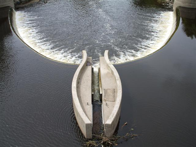 Fish Counter, Omagh. Located on the Strule River beside the new Strule Arts Centre and taken from the new footbridge. It just dawned on me that it was fish-shaped. Apparently there will be web-cameras installed to display the fish passing through.